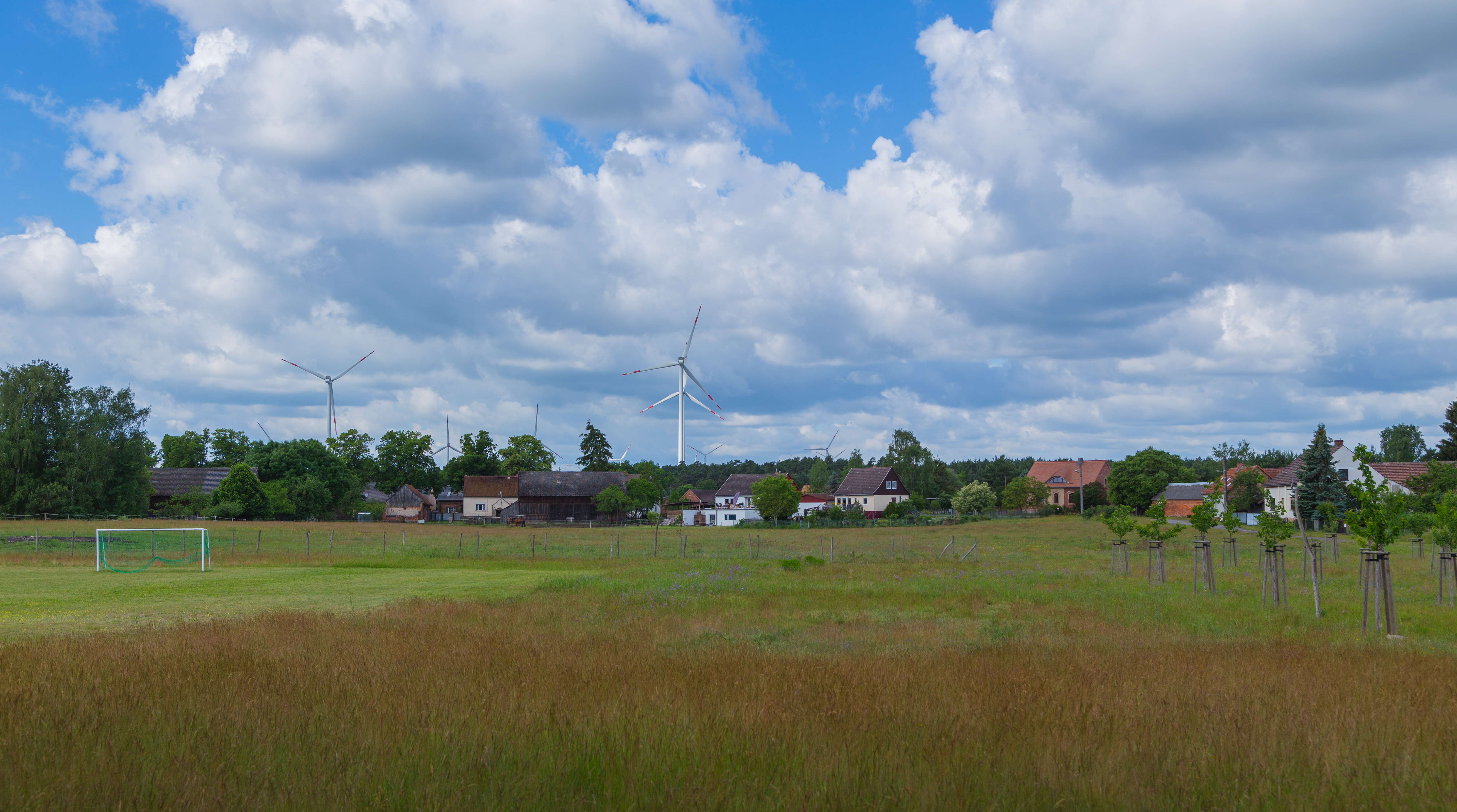 View of Siegadel, part of Goyatz, a district of Schwielochsee, Landkreis Dahme-Spreewald, Brandenburg, Germany.